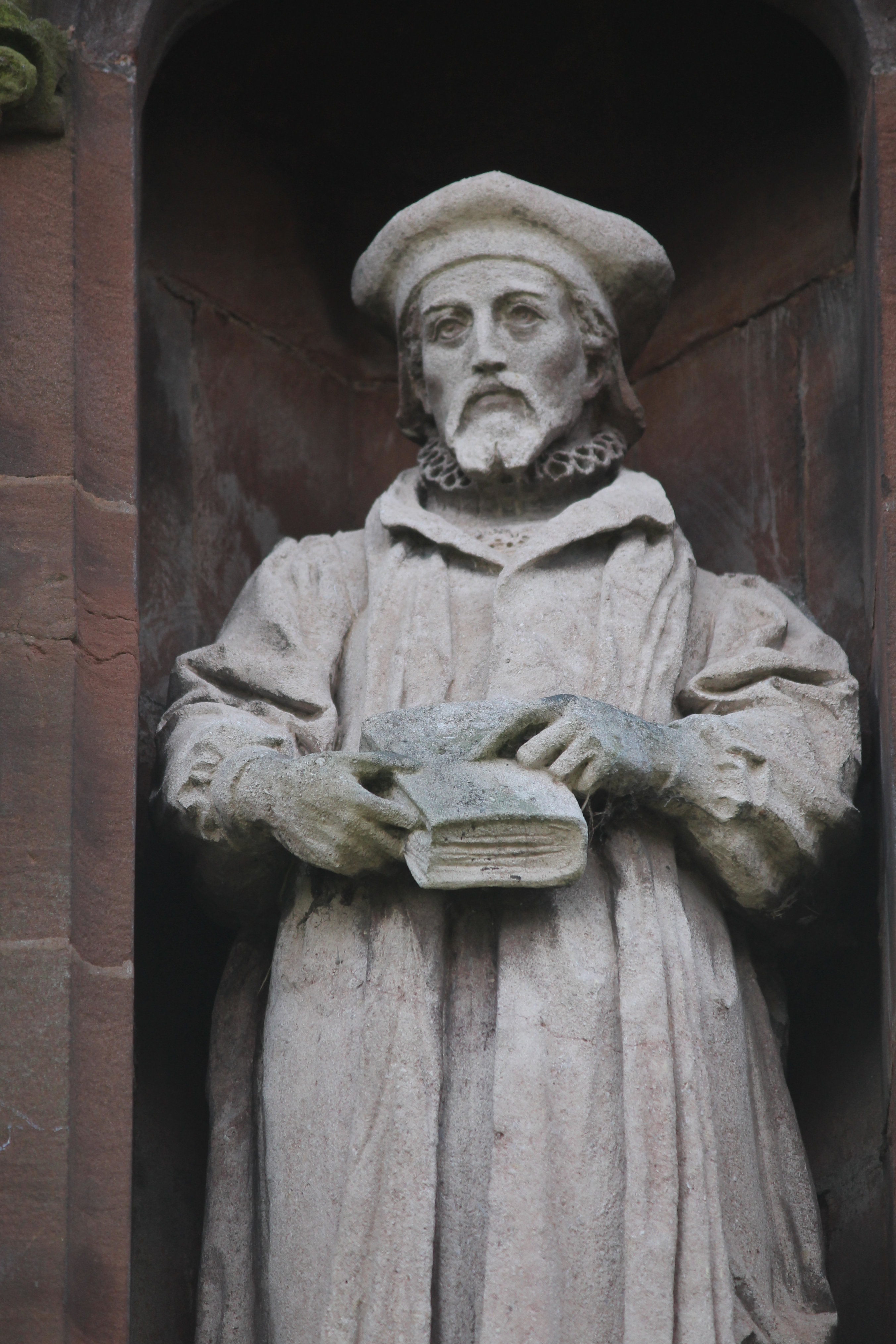 Richard Davies (bishop) on the translators' Monument, St Asaph, North Wales. He assisted William Salesbury in translating the New Testament into Welsh, and also did some work on the Welsh translation of the Book of Common Prayer. He helped to revise the Bishops' Bible of 1568, being himself responsible for the book of Deuteronomy, and the second book of Samuel.